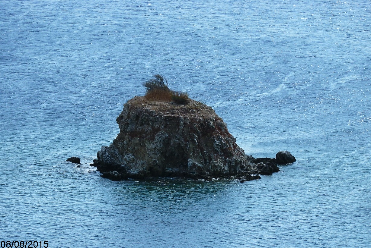 The Zamboni rocky islet in Korinthiakos Gulf near Eratini village, Fokida, Greece.